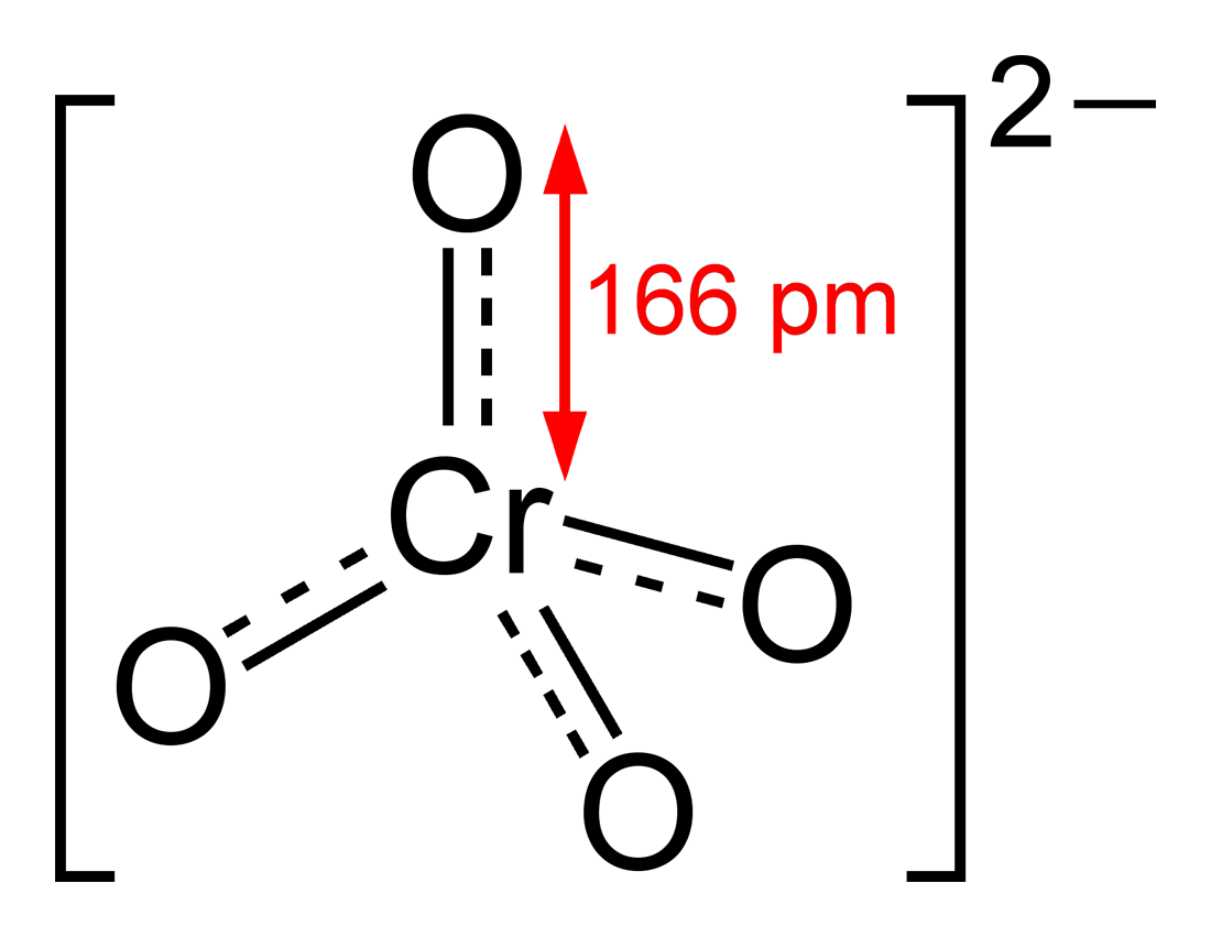 Structure of the chromate ion, CrO42−